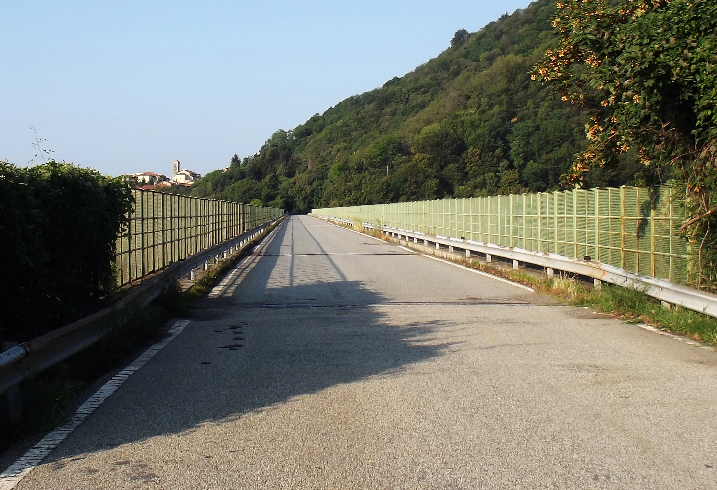 Provincial road 105 Andorno-Mosso between Veglio (in the background) and Pistolesa (BI, Italy)